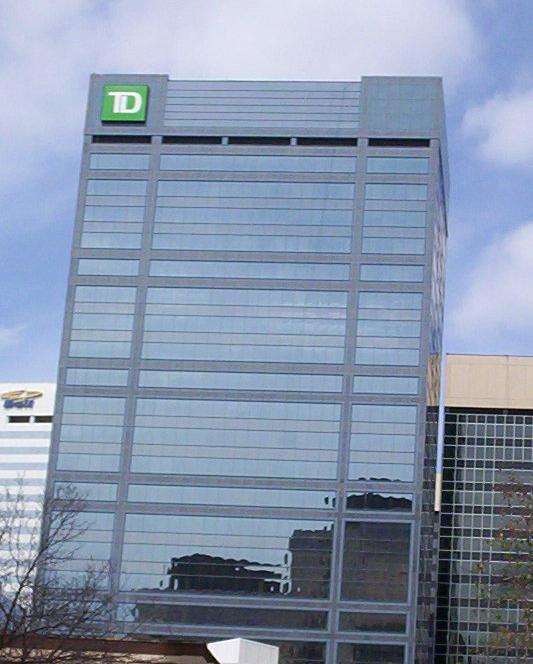 TD Tower in Edmonton